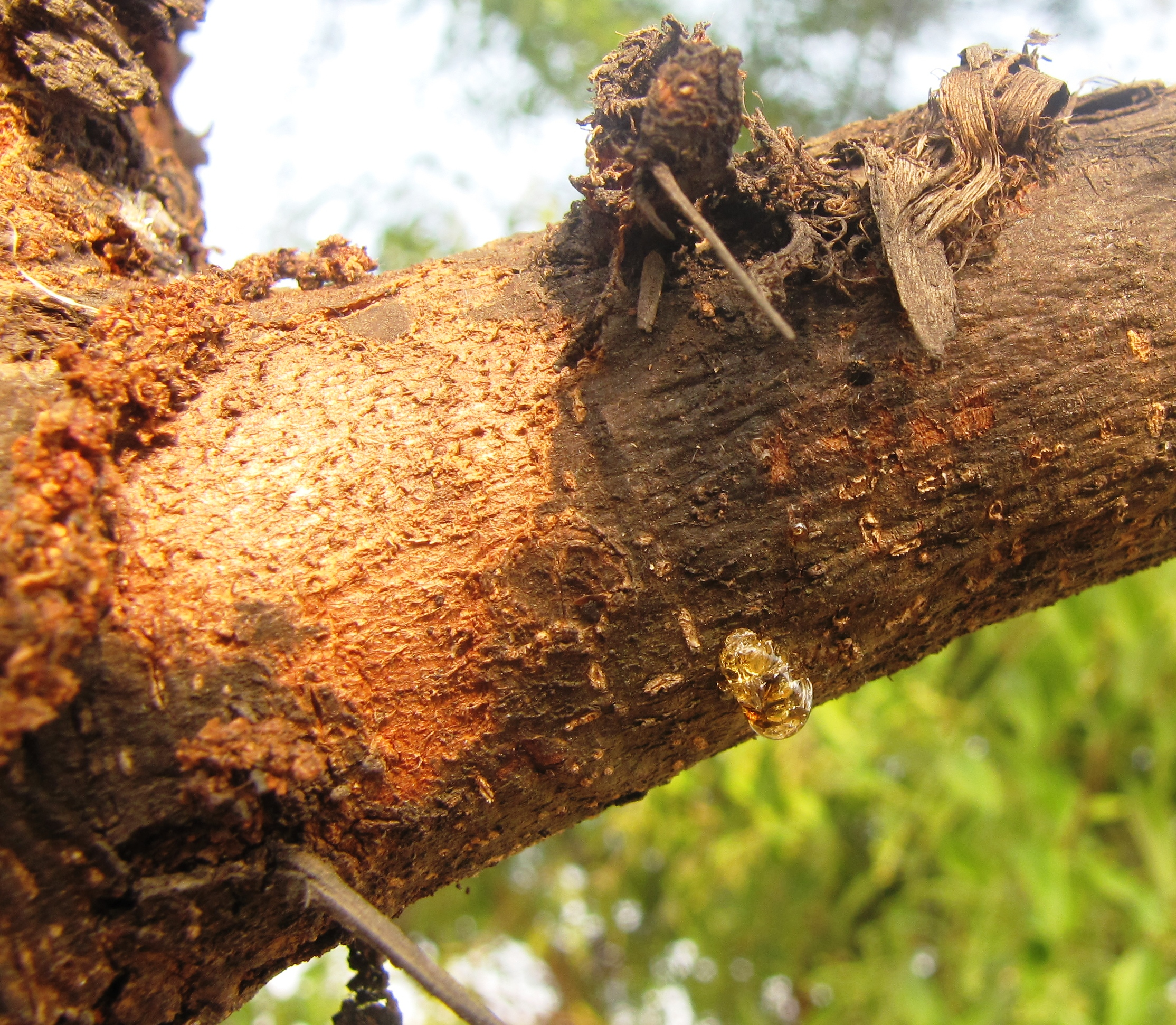 Gum arabic exuding from the Babhul tree (Vachellia nilotica)